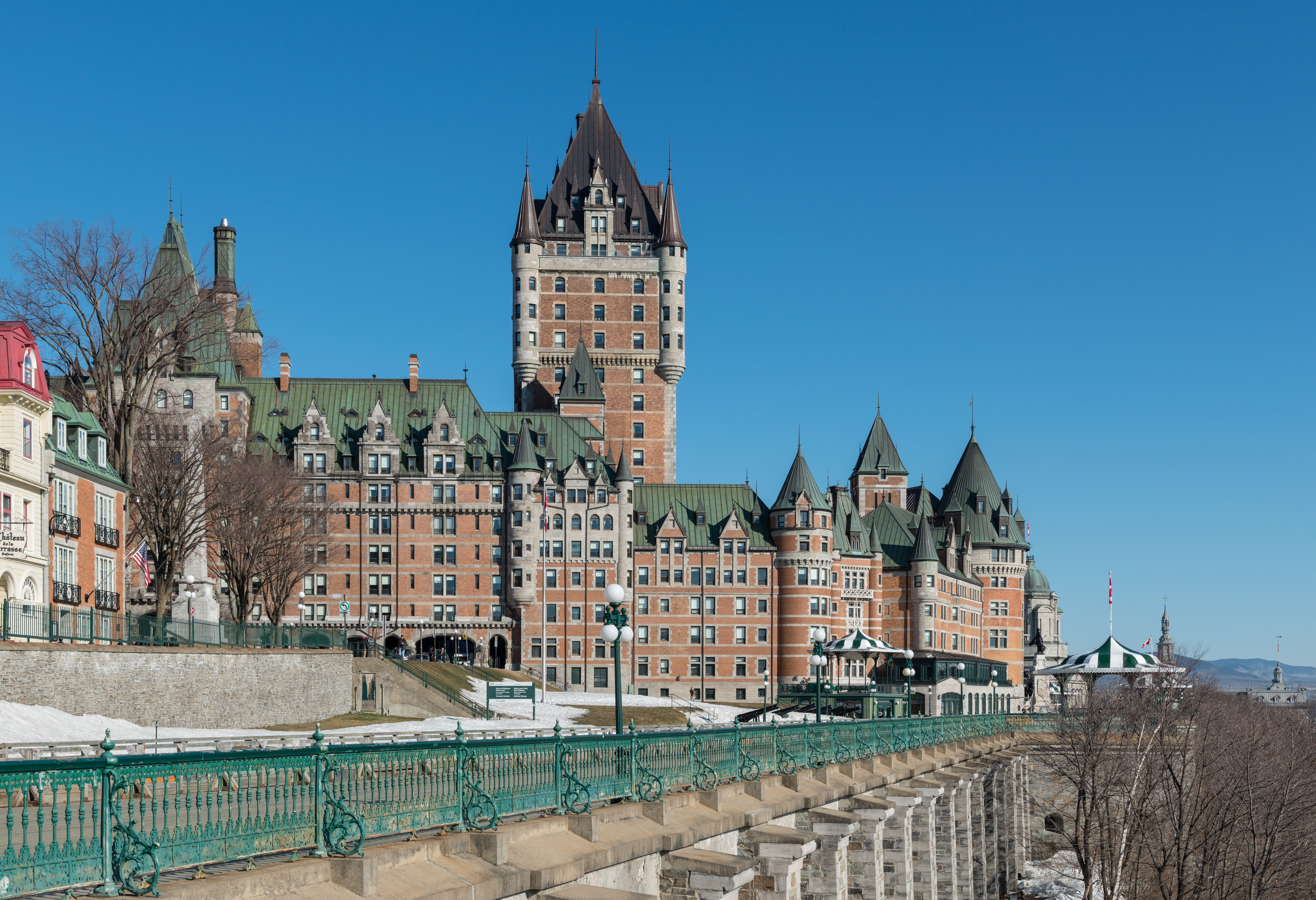 A south view of Château Frontenac, Québec City, as seen from Terrasse Dufferin